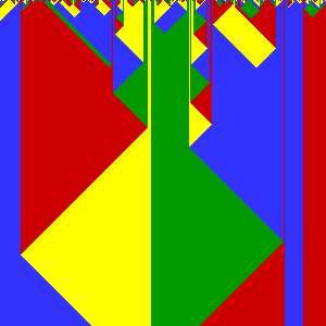 A one-dimensional 4-state cyclic cellular automaton, run for 300 steps from a random initial configuration. The ith row of the image shows the state of the automaton after i steps. The boundaries between colored regions in this diagram can be viewed as particles that move left, move right, or remain stationary, and interact with each other when they collide.